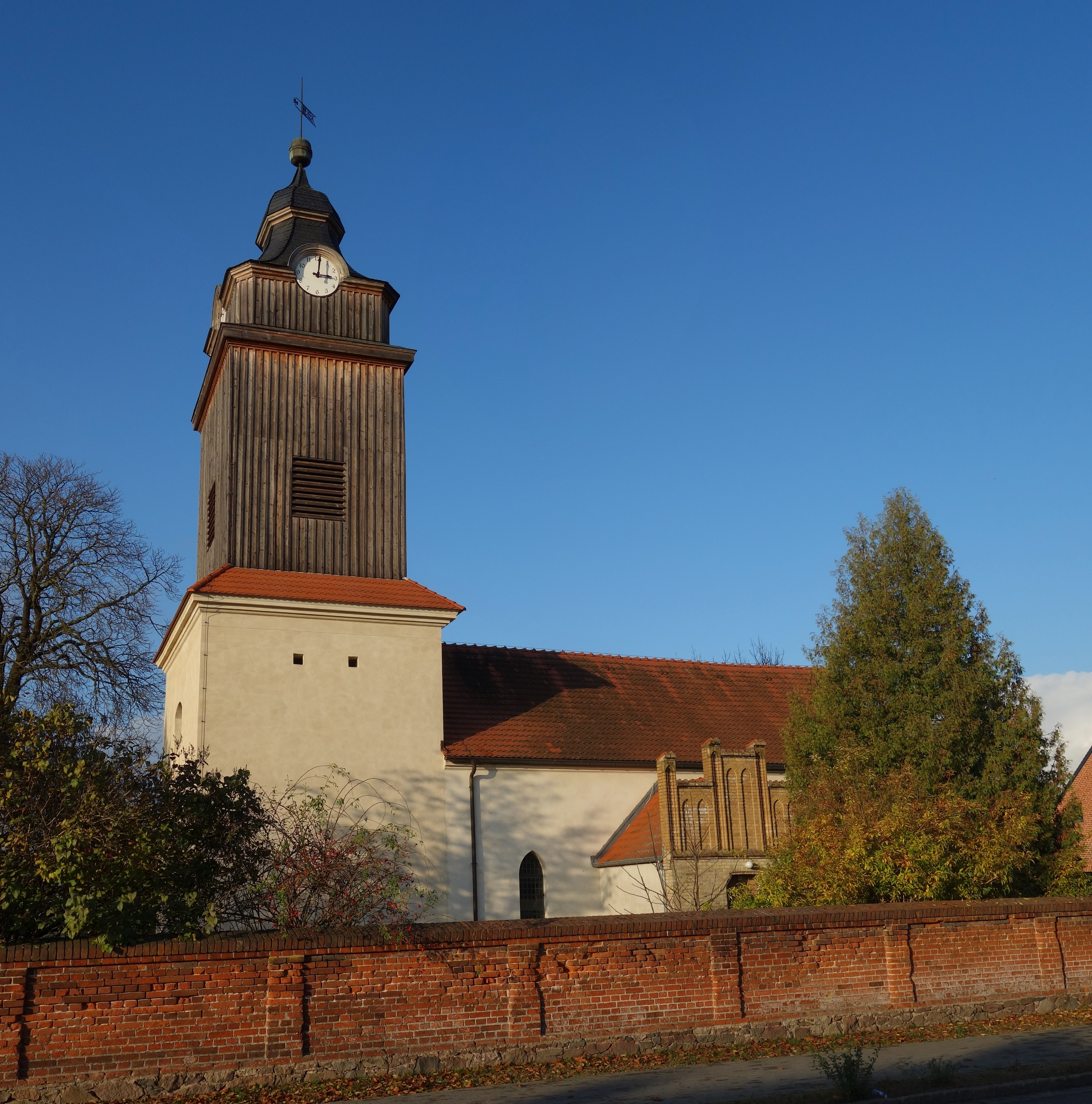 South-south-eastern view of church in Basdorf, Wandlitz municipality, Barnim district, Brandenburg state, Germany